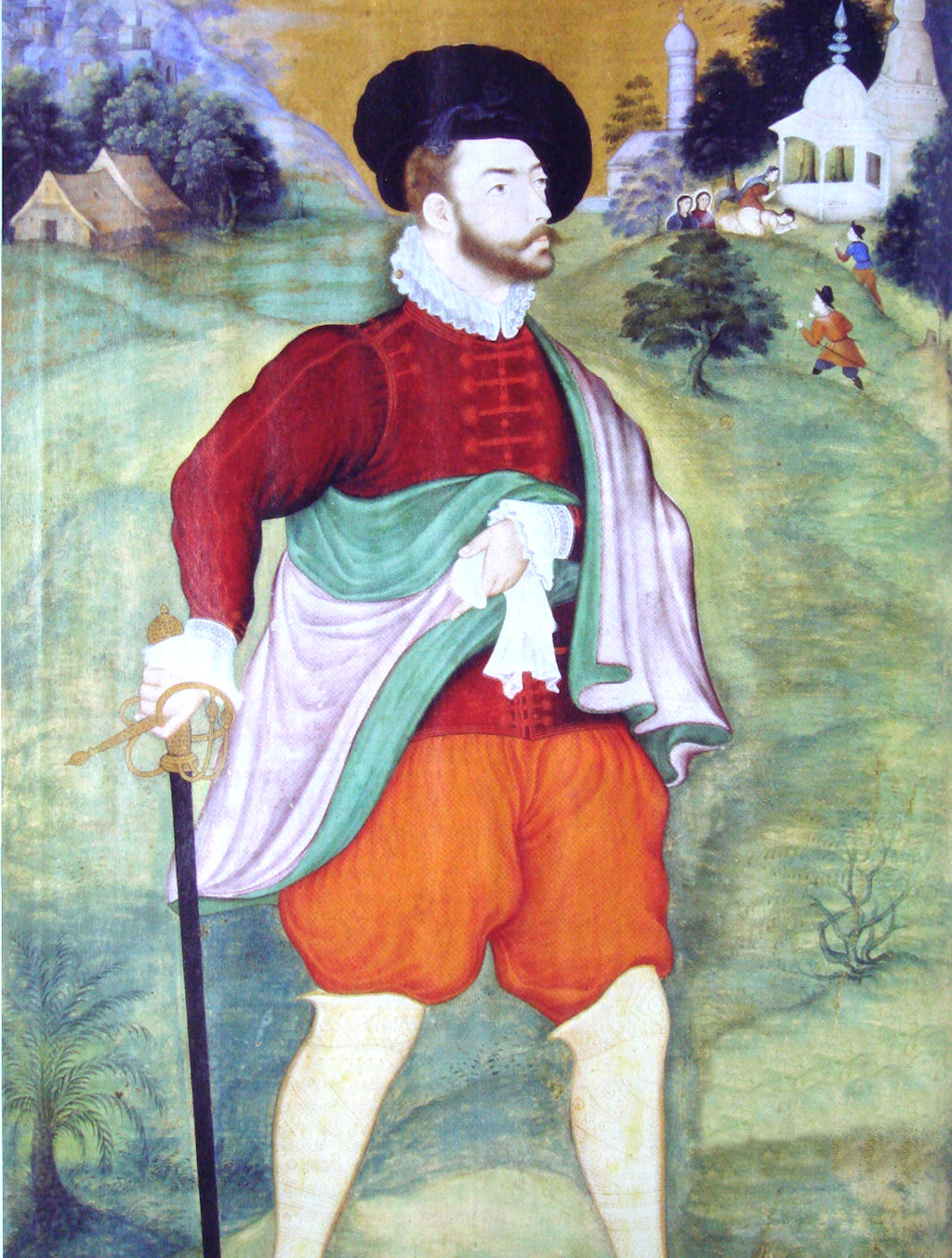 Pierre Malherbe.